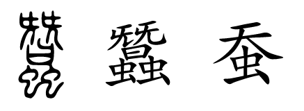 Silkworm in Chinese